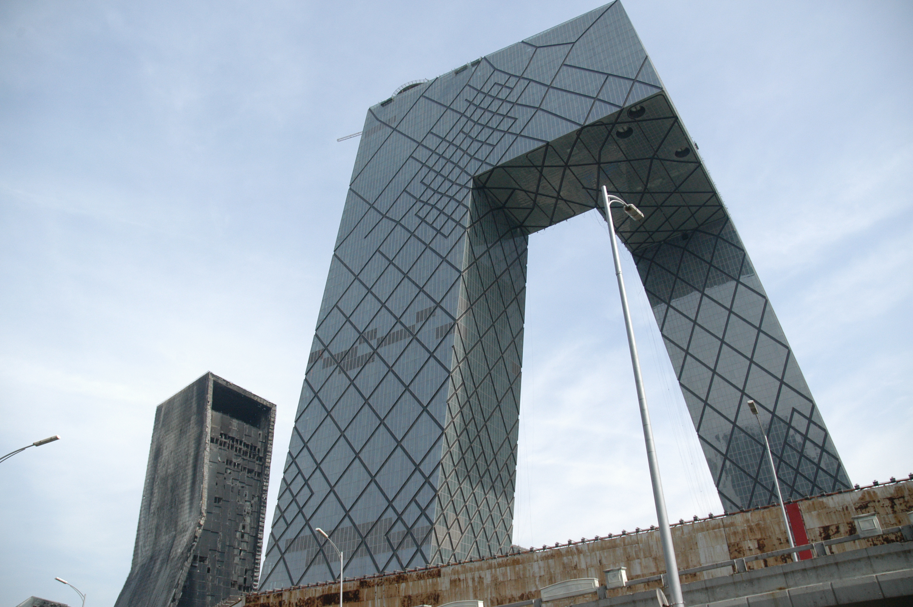 Completed CCTV Tower, Beijing, China.